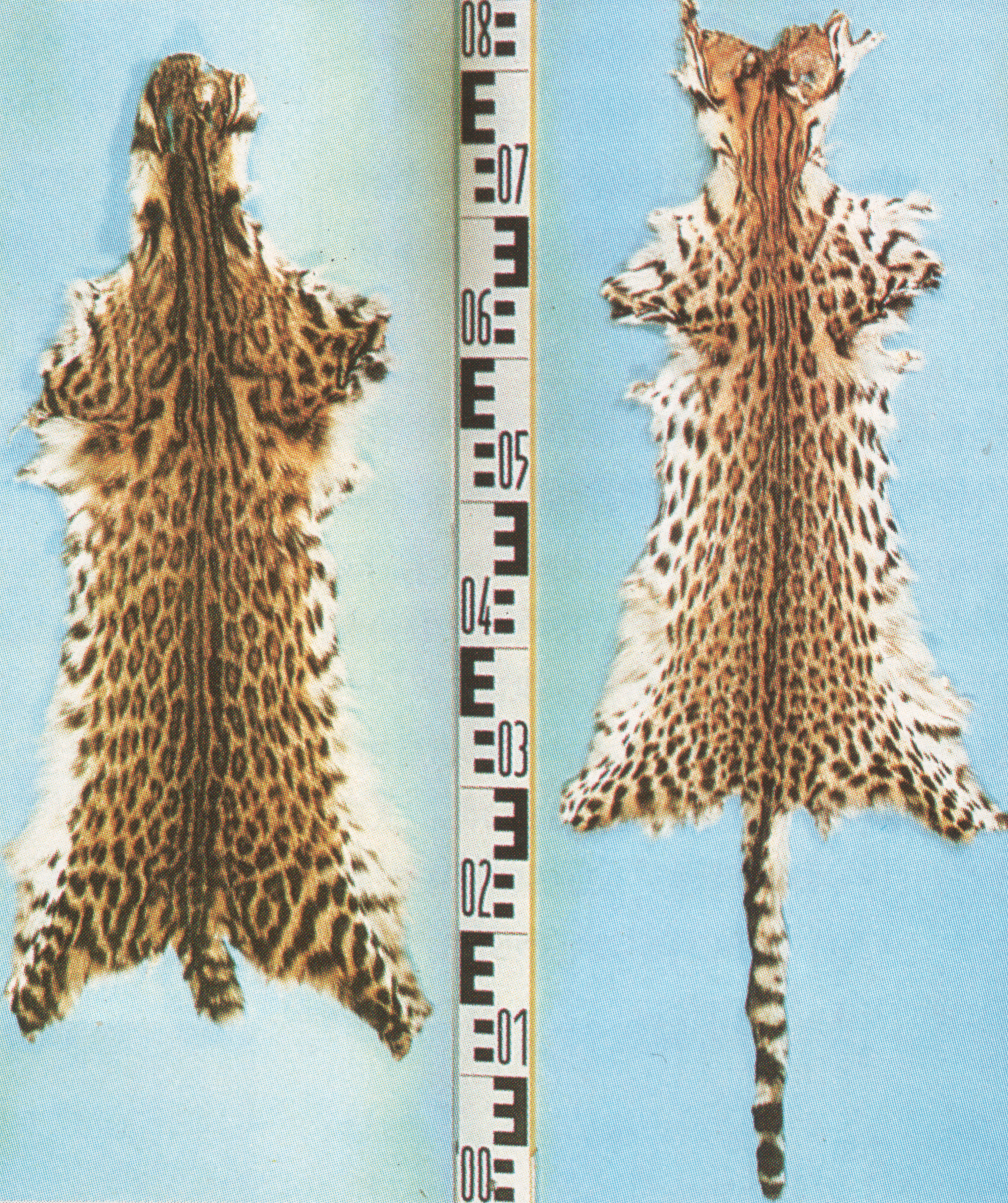 Felis tigrina. Left Mato Grosso-type, right Ceara-Type. Trade names: Leopard Cat, Mineiros, Orientales, Pintados, Bahiakatze, Cearakatze, Mato Grossokatze, Ozelotkatze, Südamerikanische Wildkatze Scientific synonyms: Leopardos tigrinus; Felis pardinoides